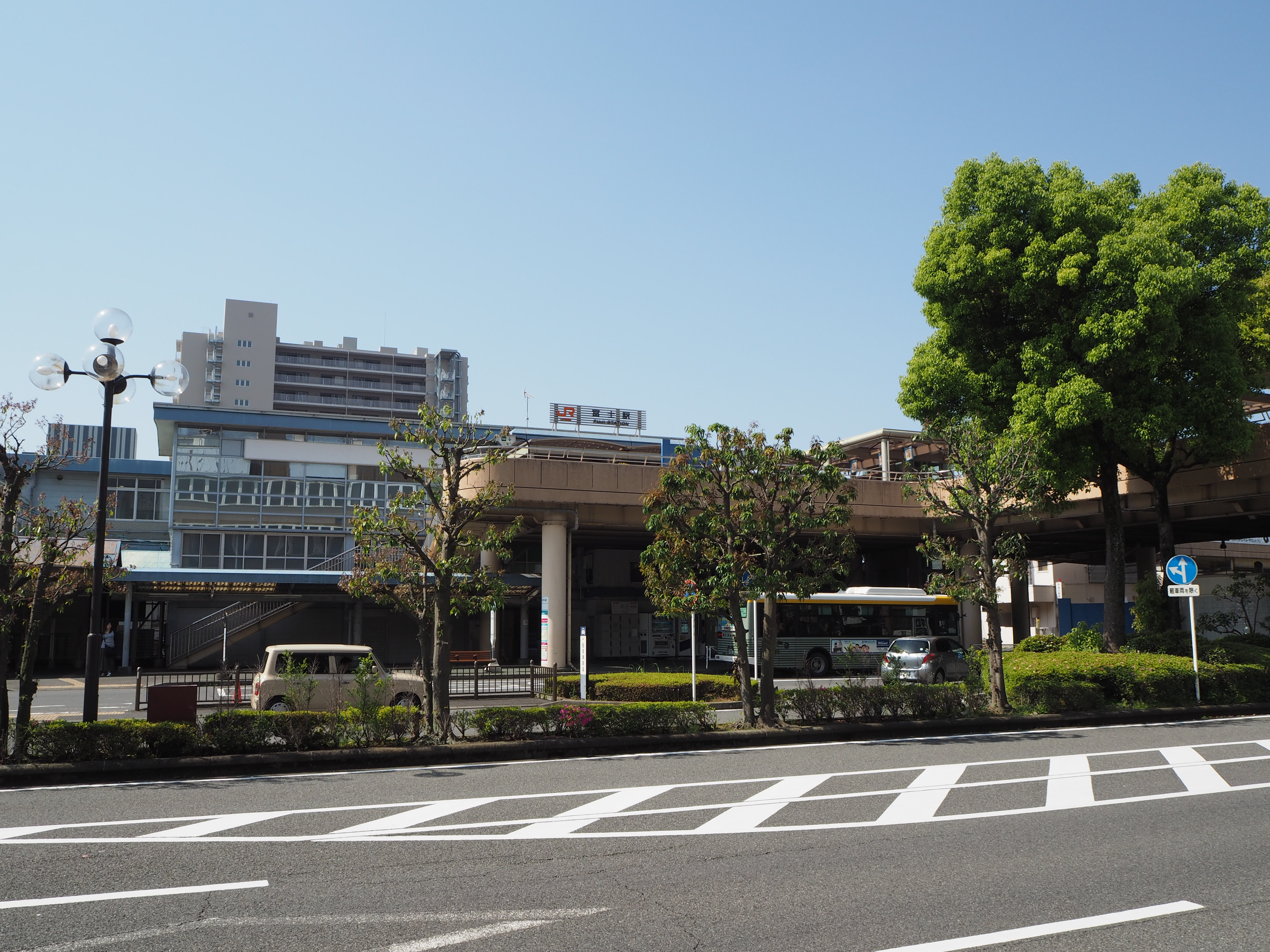 North entrance of Fuji Station